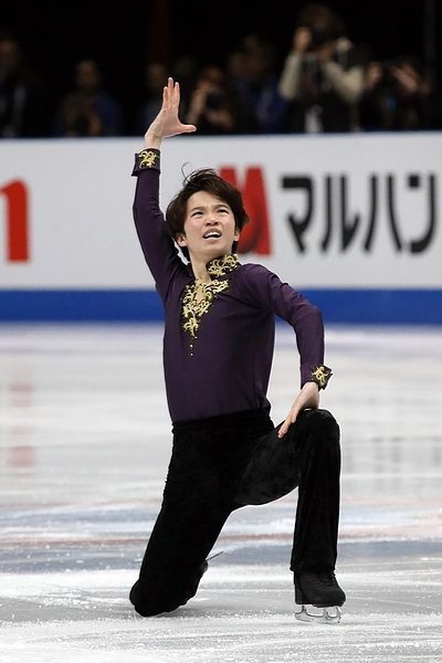 Photos – World Championships 2018 – Men (Kazuki TOMONO JPN – 5th Place)